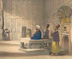 Shuja Shah Durrani, the 5th King of Afghanistan, is sitting on his throne with his palace guards standing around.